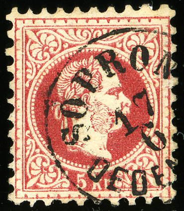 Austrian KK 5 kreuzer stamp, issue 1867, bilingual cancelled at SOPRON in Hungary, before the issue of own stamps.